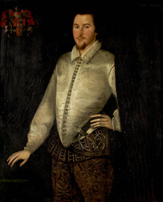 Portrait of Sir Robert Needham later 1st Viscount of Kilmorney, oil on panel Height: 50 ″ (127 cm); Width: 40 ″ (101.6 cm) dimensions QS:P2048,50U218593;P2049,40U218593